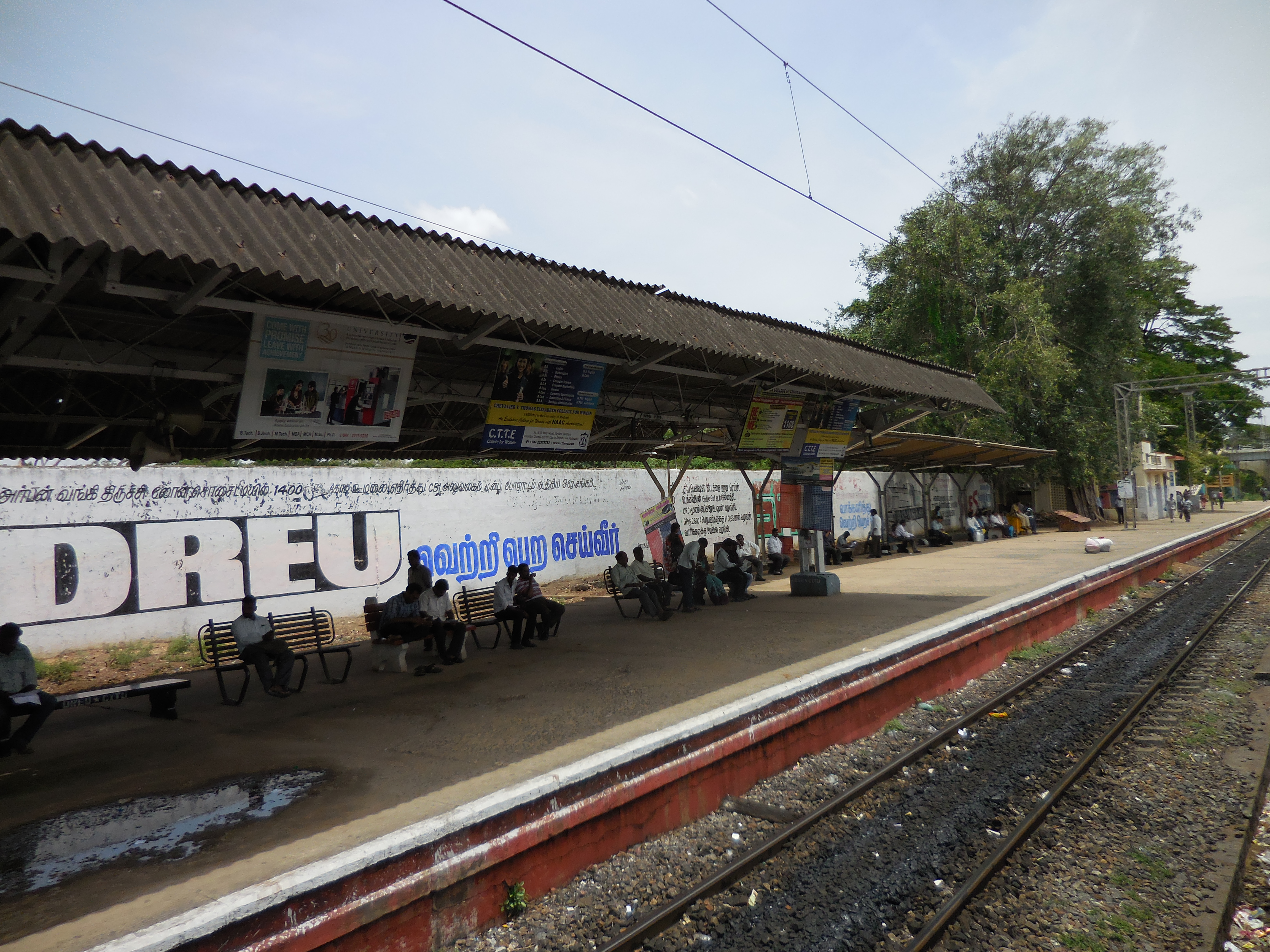 Perambur Loco Works railway station, Chennai, view towards west, taken on 15 July 2014 at noon.